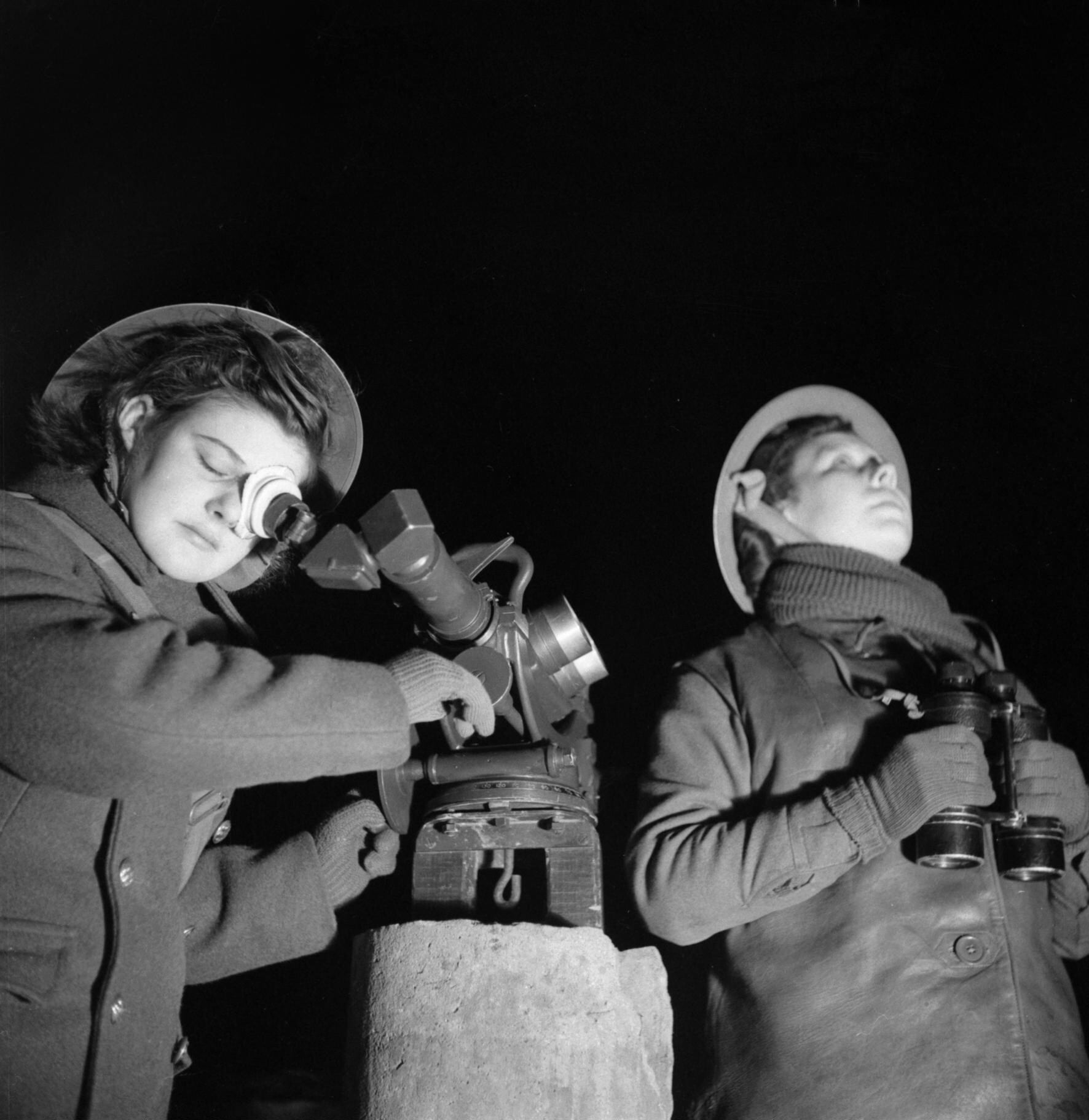 ATS spotters at a 3.7-inch anti-aircraft gun site at Dunfermline in Scotland, 6 January 1943. ATS spotters at a 3.7-inch anti-aircraft gun site at Dunfermline in Scotland, 6 January 1943. Privates M Methven and M Holme.